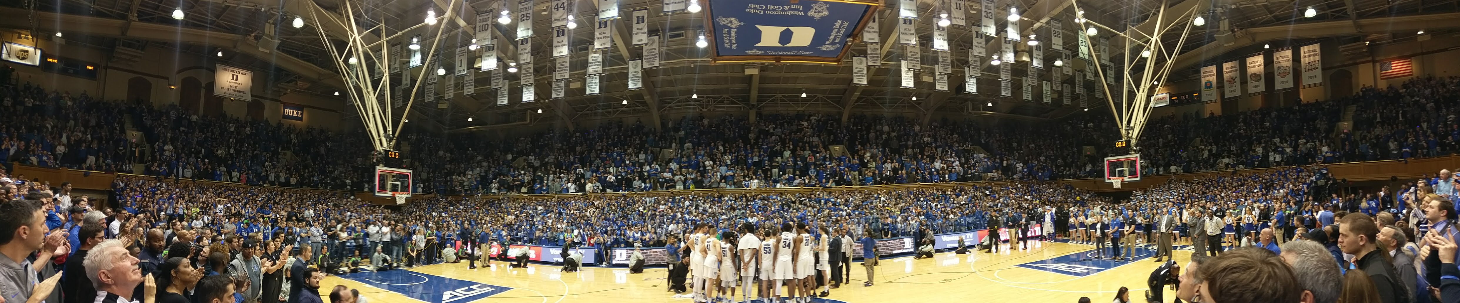 A panorama of stadium and crowd as Grayson Allen (surrounded by his teammates) speaks after the conclusion of his final home game for Duke Blue Devils men's basketball. The game was North Carolina at Duke in Cameron Indoor Stadium on March 3, 2018, for the final game of both teams' 2017–18 regular season.